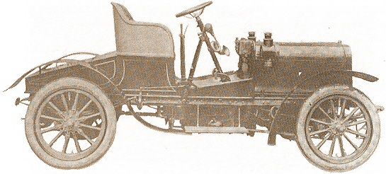 1905 Hallamshire